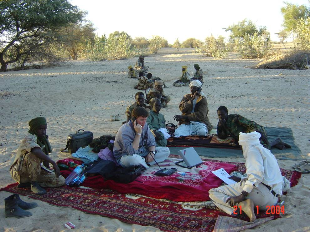 Original description from Flickr: Andrew Marshall, the HD Centre Deputy Director with representatives of the SLM in Darfur communicating with colleagues in Geneva via satellite phone.